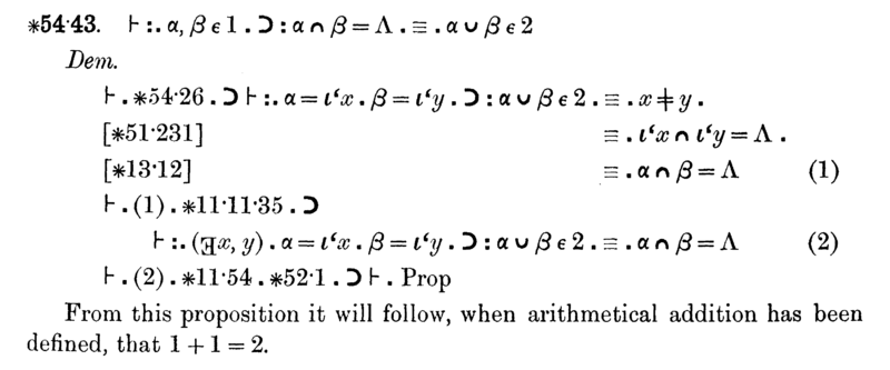 Page from Principia Mathematica, an important lemma on the way to proving that 1+1=2.